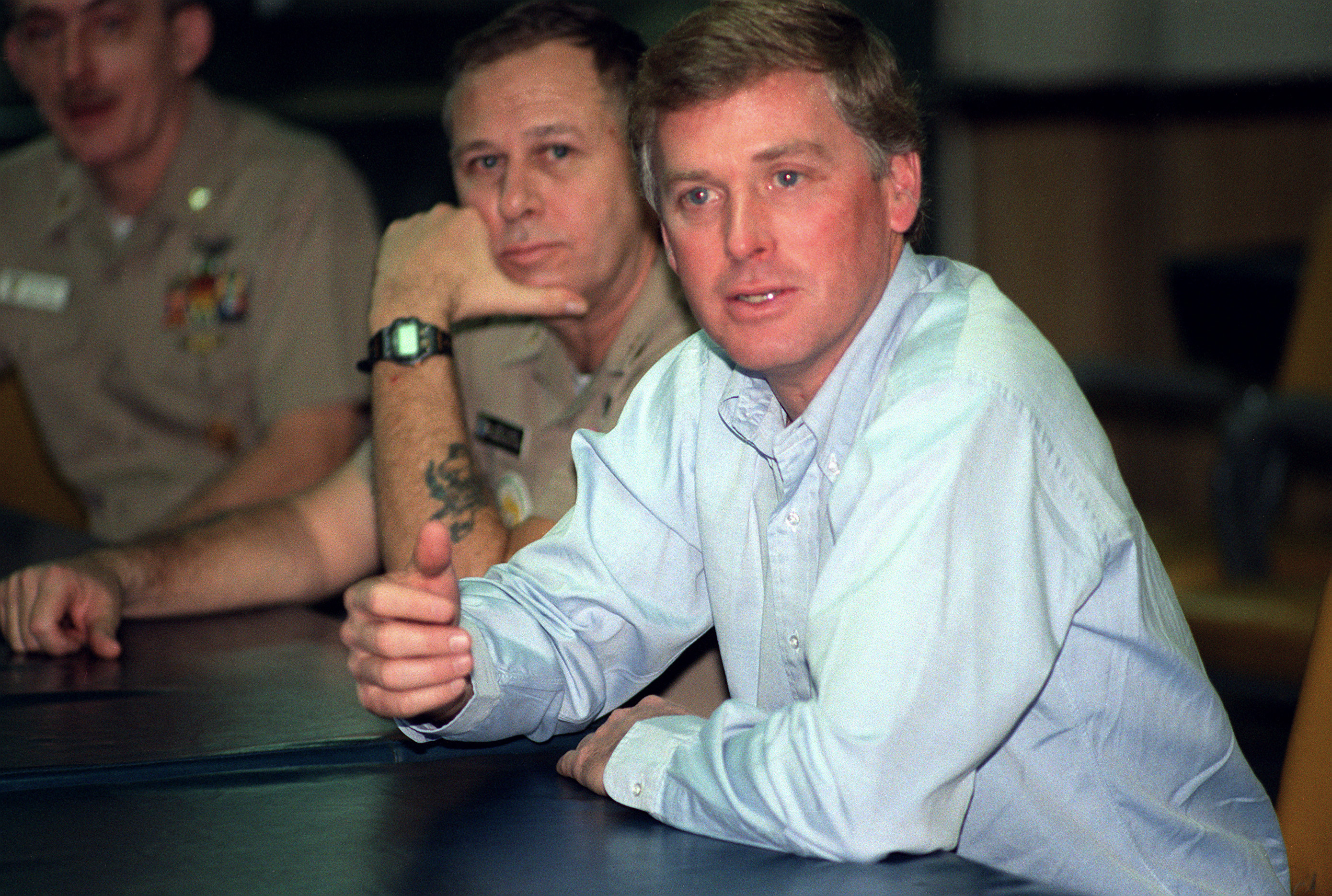 Vice President J. Danforth Quayle converses with chief petty officers aboard the aircraft carrier USS JOHN F. KENNEDY (CV-67). Quayle is aboard the ship during a three-day visit with military forces deployed to the Middle East in support of Operation Desert Shield.